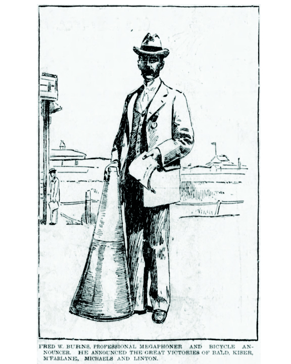 Fred Burns, first sports announcer, with his megaphone in 1898 at the Manhattan Beach Bicycle Racetrack he helped build.